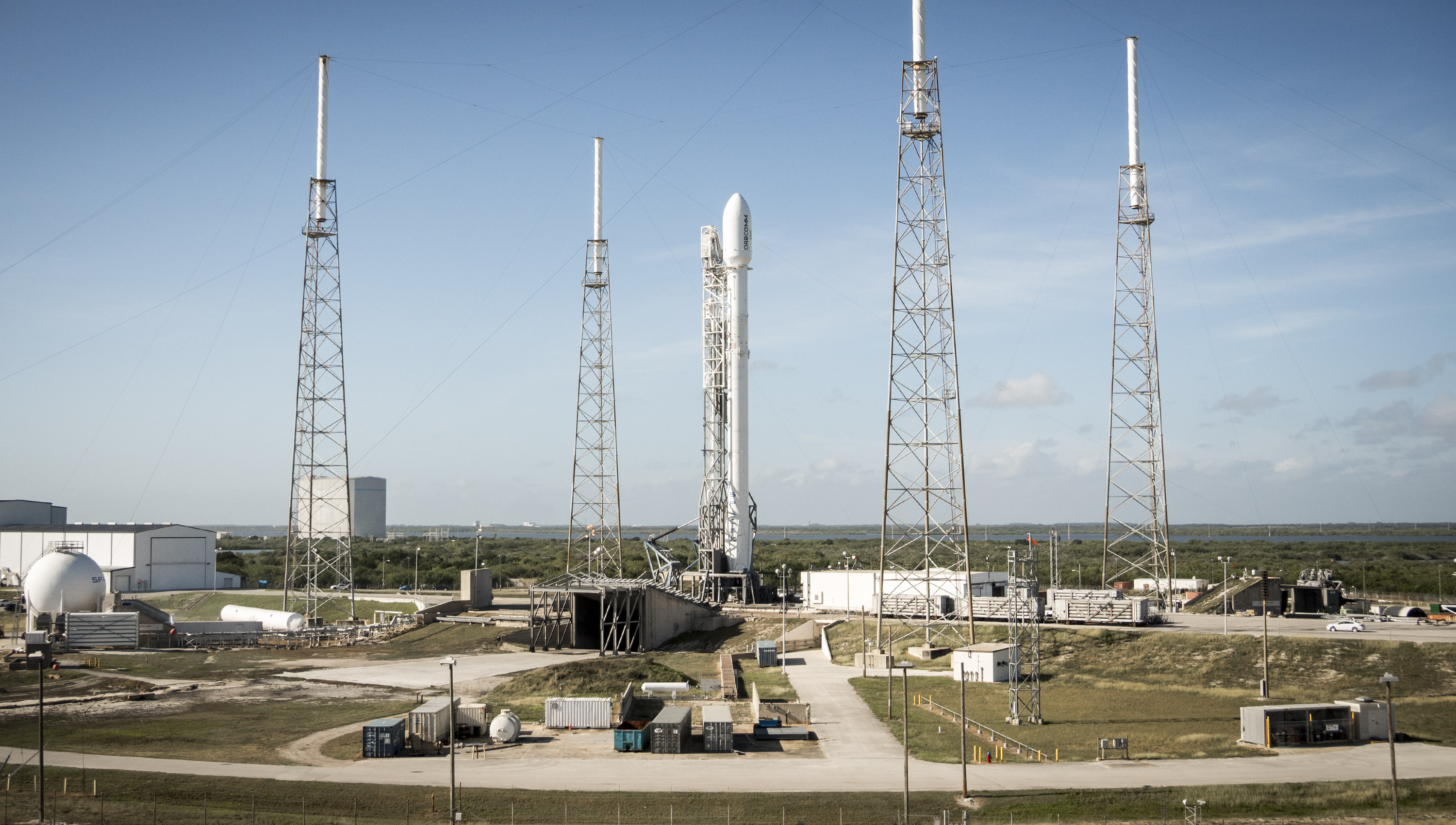 Falcon 9 on the pad in advance of mission to launch 11 ORBCOMM satellites & attempt 1st stage landing.